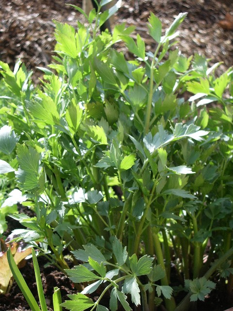 Levisticum_officinale (Maggikruid of Lavas)